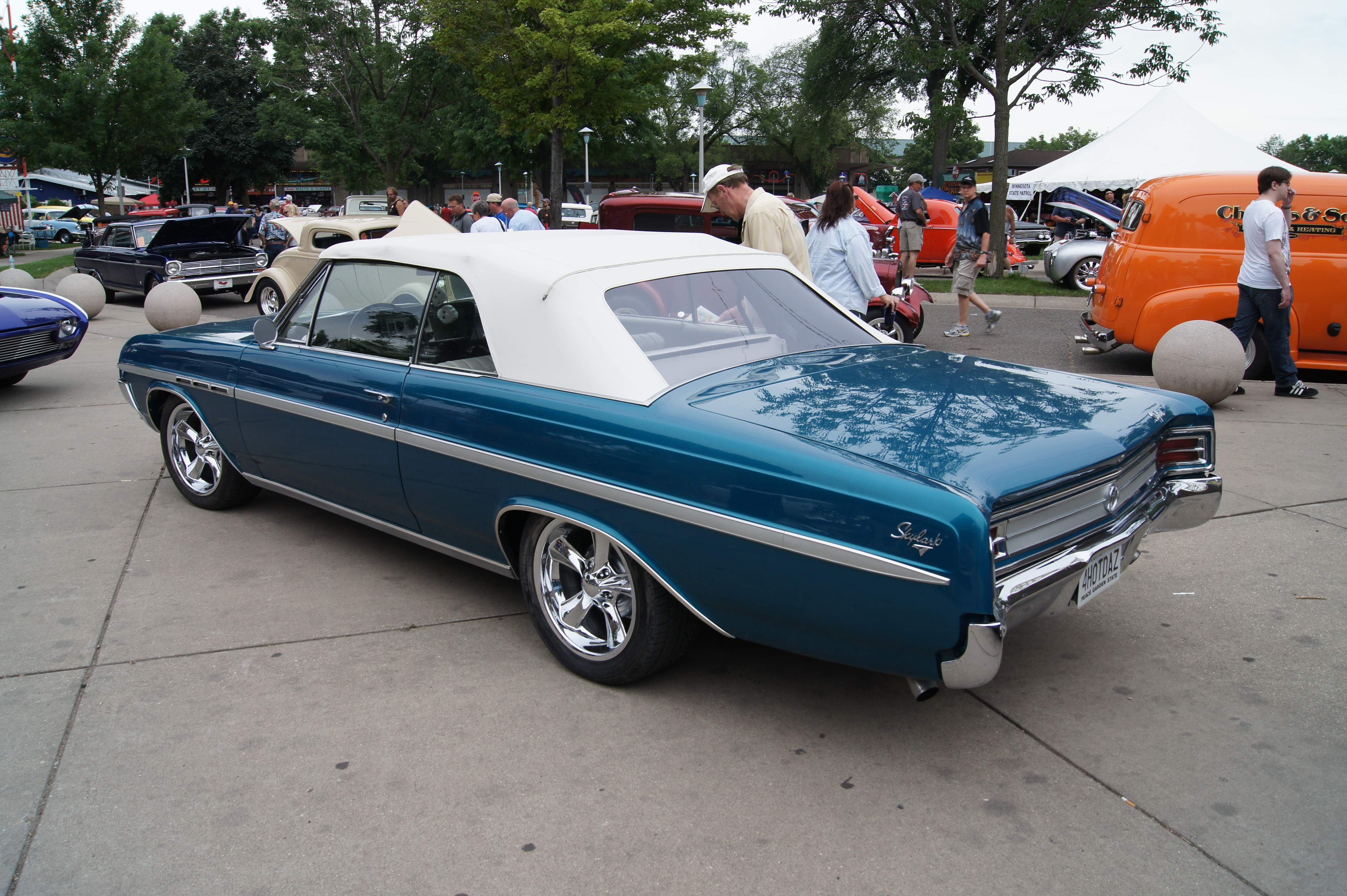 Minnesota Street Rod Association "Back to the Fifties" June 2012 Minnesota State Fairgrounds St. Paul MN